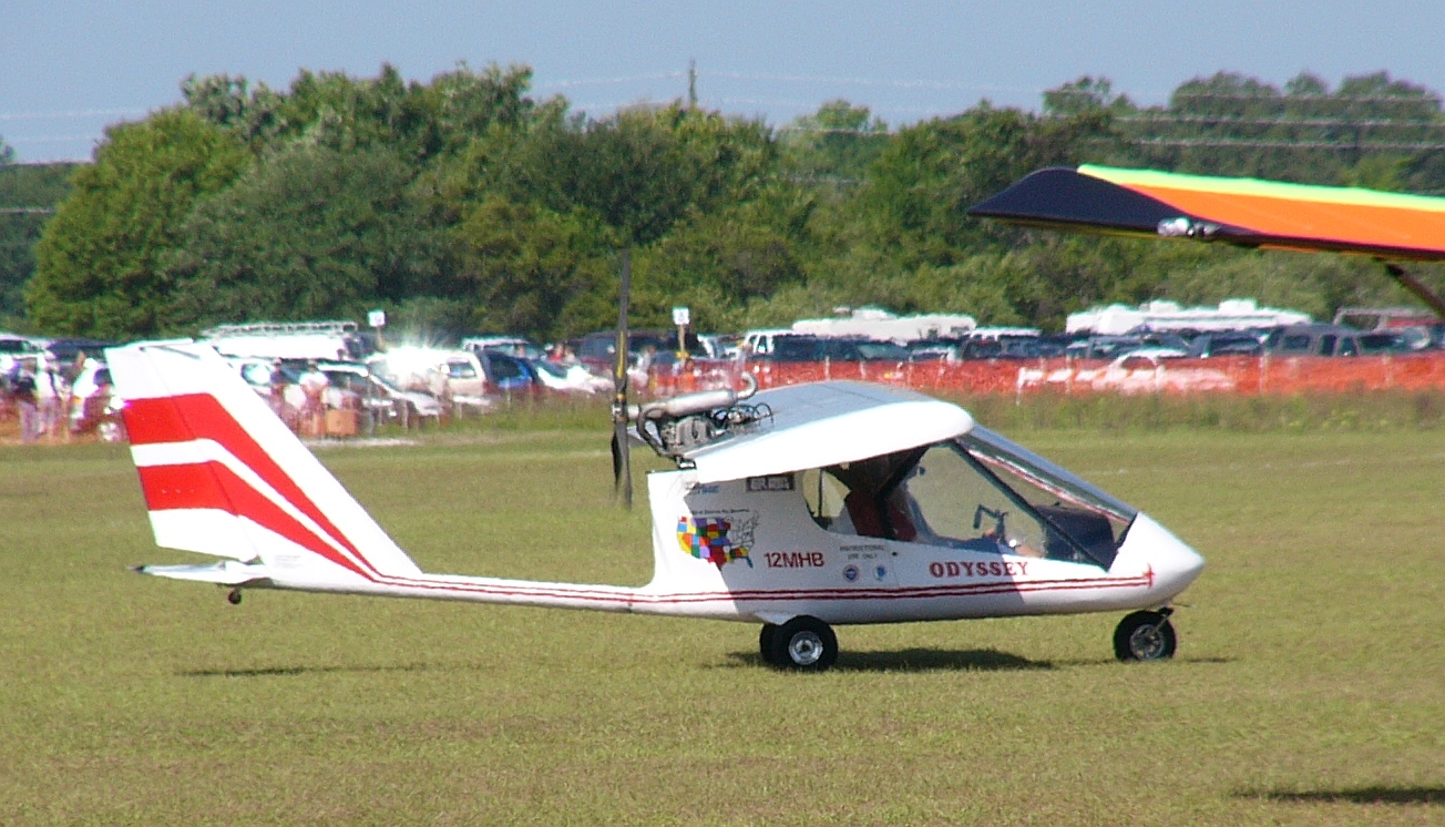 An Earthstar Thunder Gull Odyssey at Sun 'Fun 2004